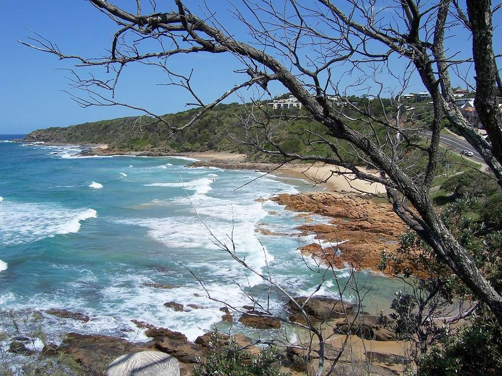 Coolum, Sunshine Coast, Queensland, Australia.